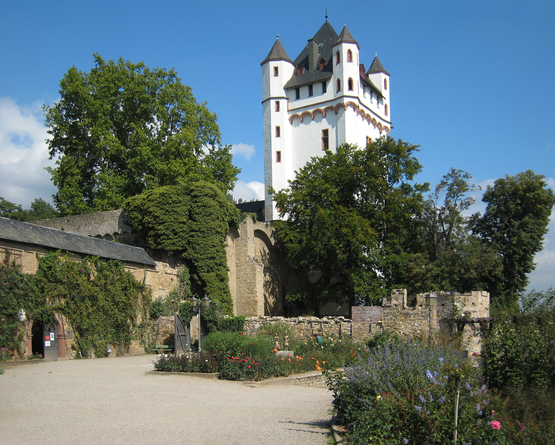 Eltville Castle, located in the village of Eltville on the Middle Rhine/Germany